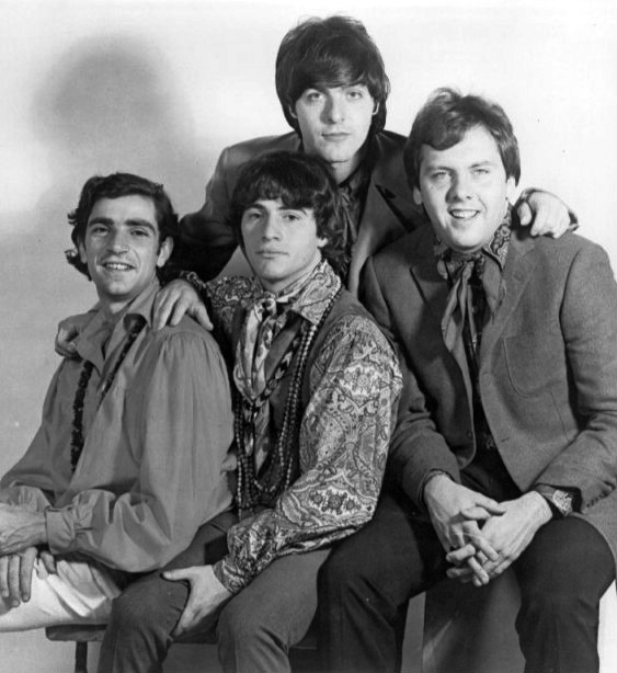 Publicity photo of the music group The Rascals.